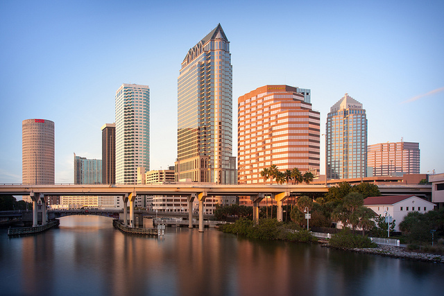 A view of downtown Tampa, Florida taken from the W Platt Street bridge.